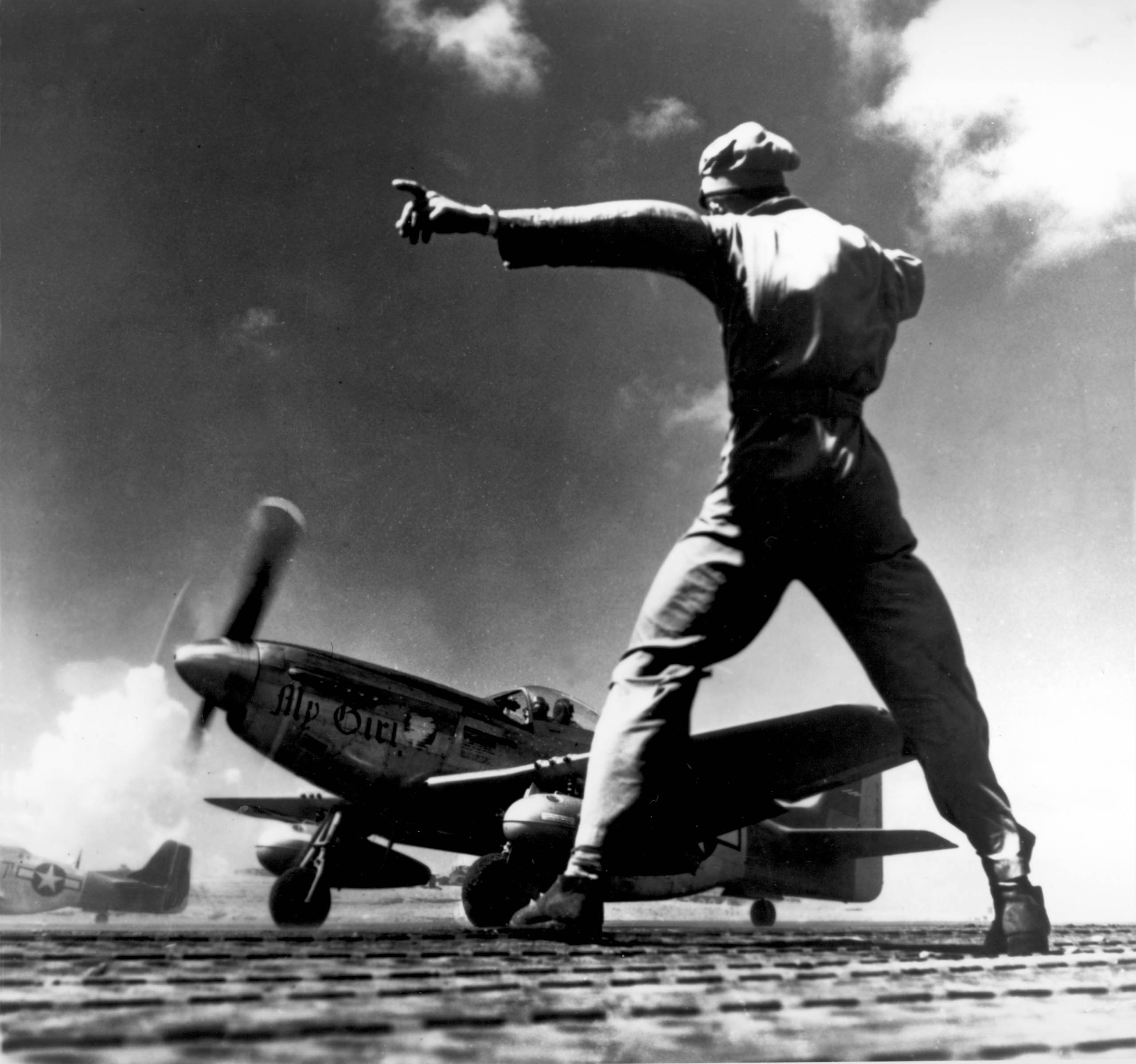 P-51 and "My Girl" 1940's -- A North American P-51 takes off from Iwo Jima, in the Bonin Islands. From this hard-won base our fighters escorted the B-29s on bombing missions to Japan, and also attacked the Empire on their own. (U.S. Air Force photo)[1]